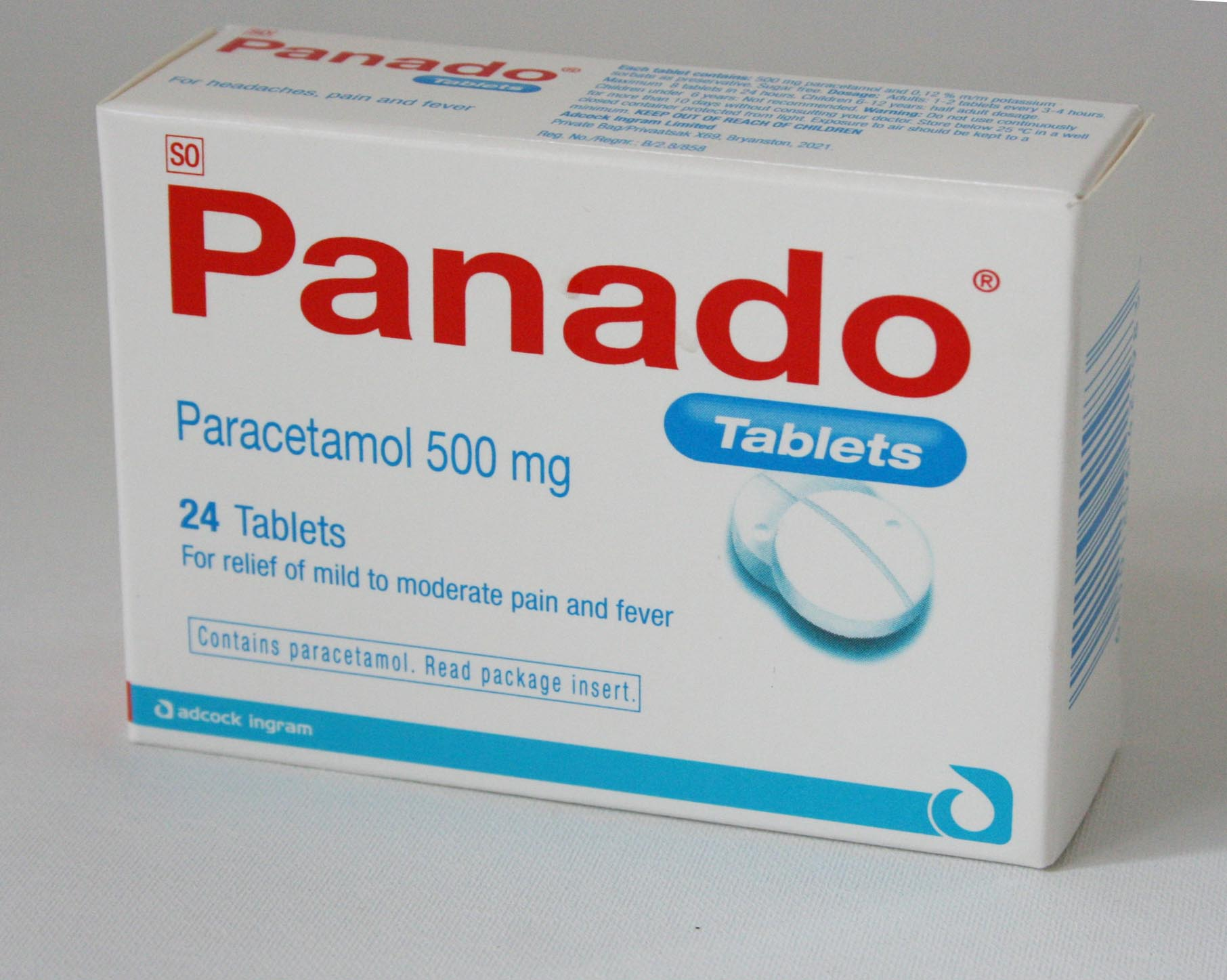 Panado